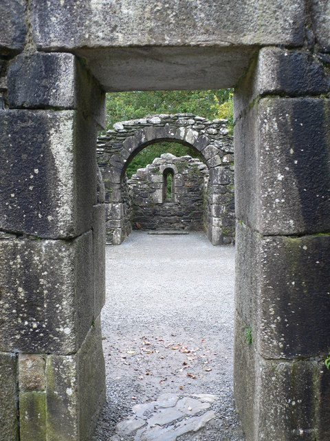 Reefert Church, Glendalough The Reefert Church, whose name derives from Righ Fearta, ?burial place of the kings.? The simple nave-and-chancel church dates from c.1100 AD. Its granite doorway has sloping jambs and flat lintel; projecting corbels at the gables once supported verge timbers for the wooden roof.